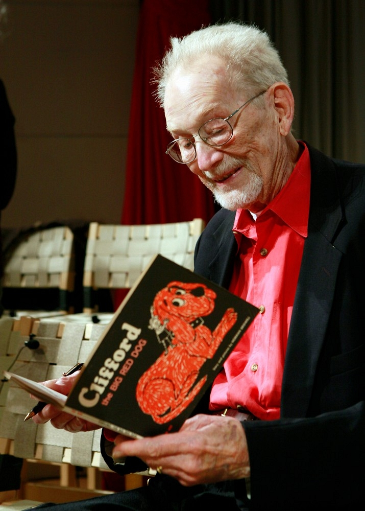 Author and illustrator Norman Bridwell holds a copy of the first Clifford the Big Red Dog book he wrote nearly 50 years ago. In support of Scholastic's global literacy campaign, Bridwell joined 11 other children's illustrators at Scholastic's New York City headquarters for the launch of a month-long online charity auction of their original artwork to benefit literacy organizations, New York, Thursday, May 5, 2011.